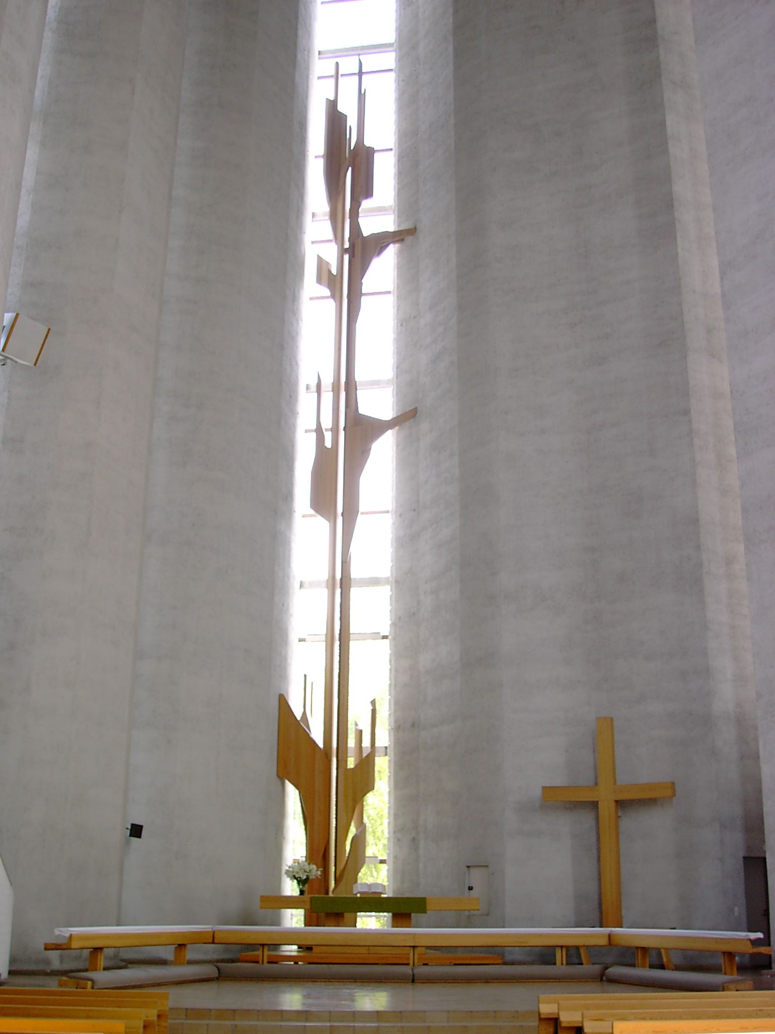 Interior of Kaleva Church in Tampere, Finland. View to the altar from the central aisle. Includes the altar sculpture Särkynyt ruoko (Broken reed)